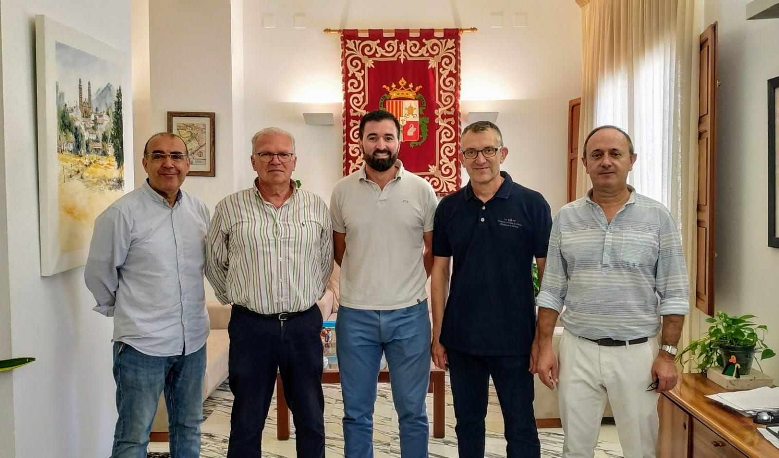 Ricardo Cardona (PP), Antoni Mira (PSPV-PSOE), Ricardo Requena (Gent de Canals), Joan Carles Pérez (Compromís) and Vicent Sancho Fombuena (Gent de Canals), Canals Mayors.